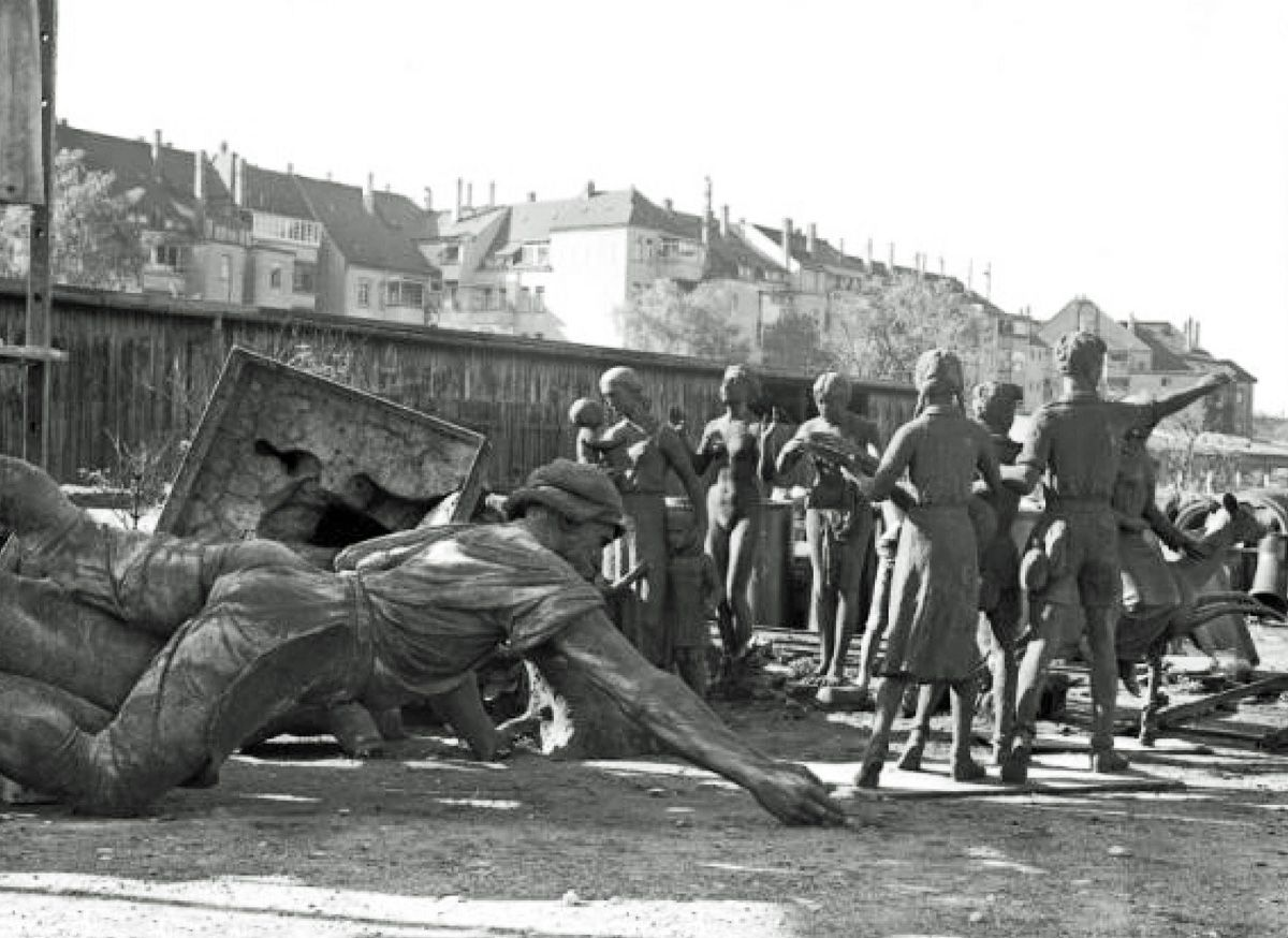 Assemblage point for 30 public monuments made from bronze, copper and brass disassembled in Leipzig city. Those were chosen to be remelted according to the "Metallspende des Deutschen Volkes"-program that was started 1940.Front, right: Monument Jugend-Denkmal created by Walter Zschorsch (1888–1965) dedicated to the Nazi Party youth organisation Hitler Youth (Inaugurated 1938).